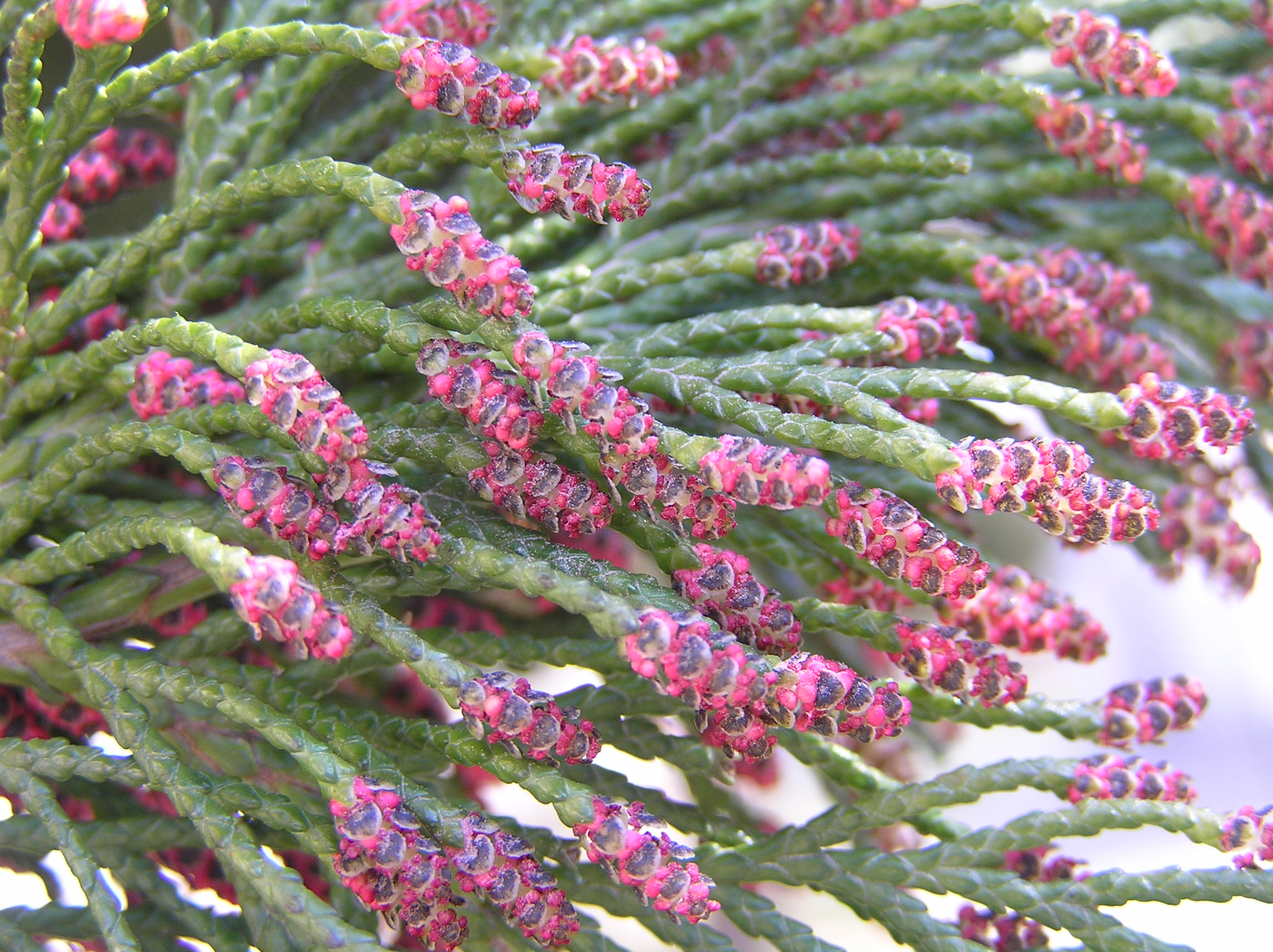 Chamaecyparis lawsoniana, Choceň, Czech Republic, cultivated